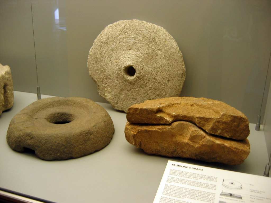 Ancient roman hand mills of the Archaeological Museum of Palencia (Castile and León).